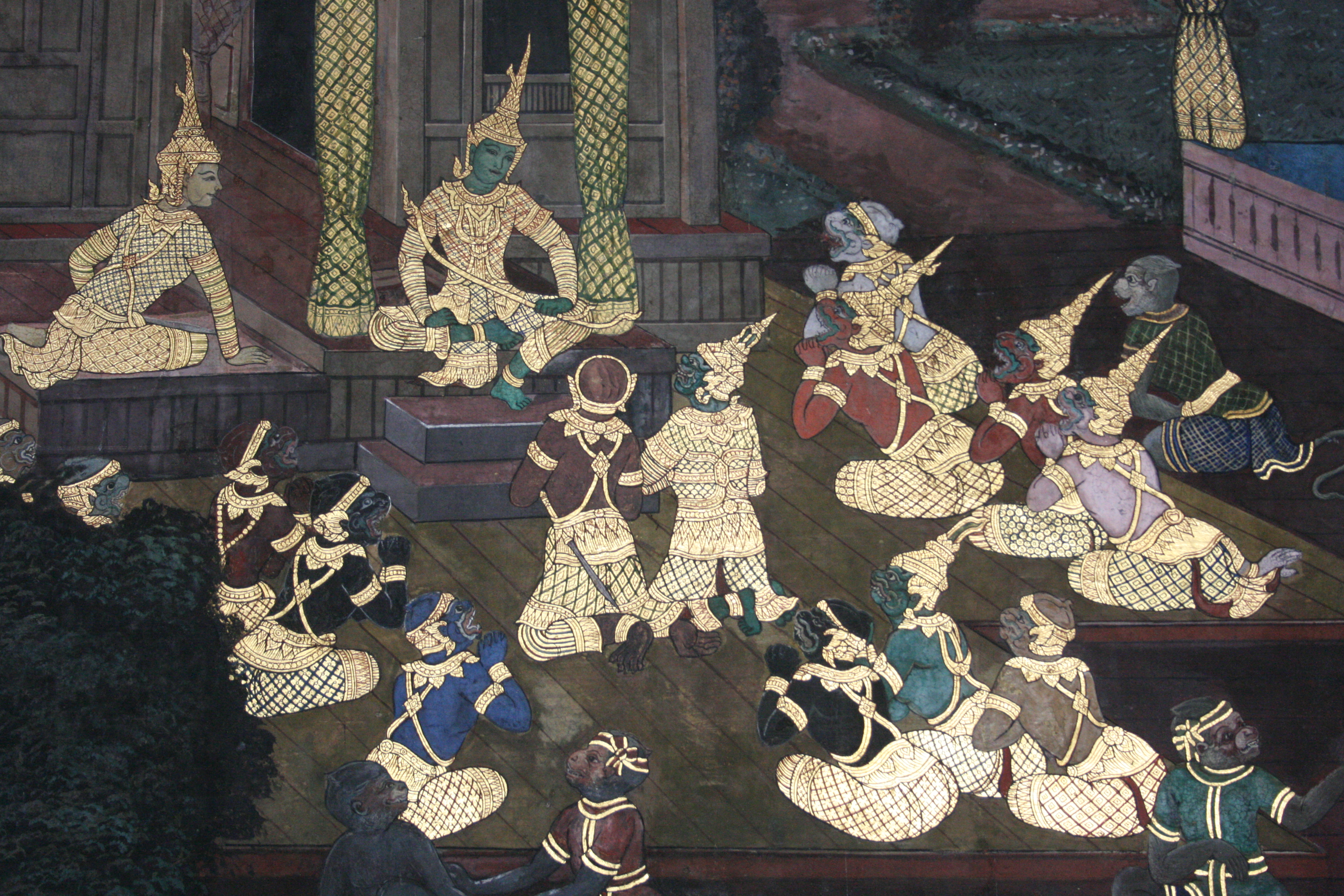 The mural of the Temple of the Emerald Buddha depicting an event in Rammakian (รามเกียรติ์; "Glory of Rama"), a Thai version of the Hindu epic Ramayana. In this photo, Ram (ราม; known in Ramayana as Rama) and his younger brother, Lak (ลักษณ์; known in Ramayana as Lakshmana), attend a meeting with the magus, Phiphek (พิเภก; known in Ramayana as Vibhishana), and the monkey military chiefs.